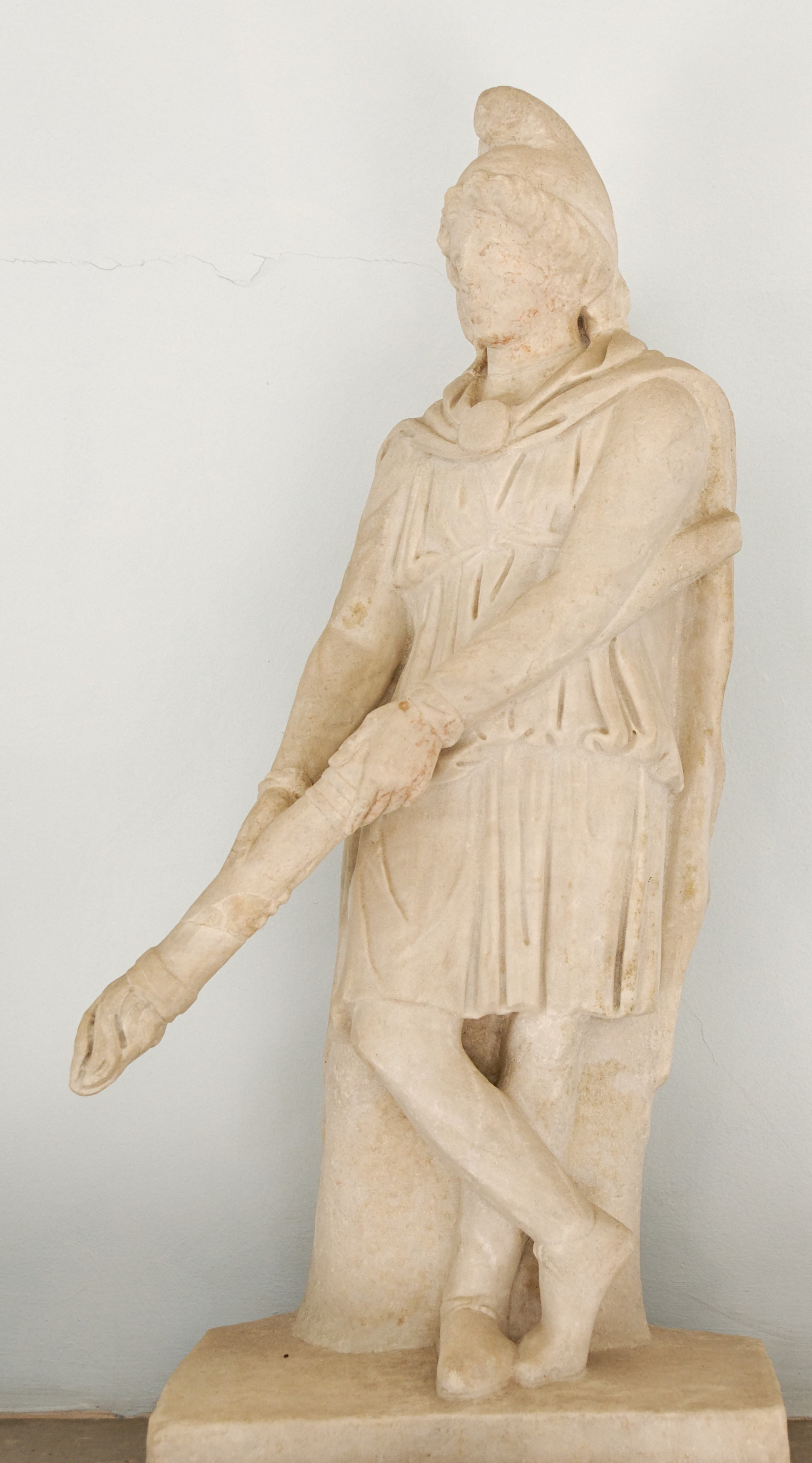 CIMRM 165-166: Cautopates, so-called "Dadophorus". Marble, Roman artwork, 3rd century AD. CIMRM 165-166 adds: "Assumed finding place is Panormus [, but this is] uncertain as the statuary has been restored partly in Sicilia, and partly in Rome."